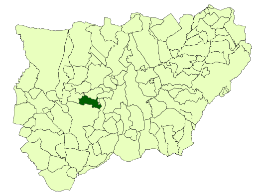 Situation of the municipality of Villatorres (Jaén, Andalusia, Spain).